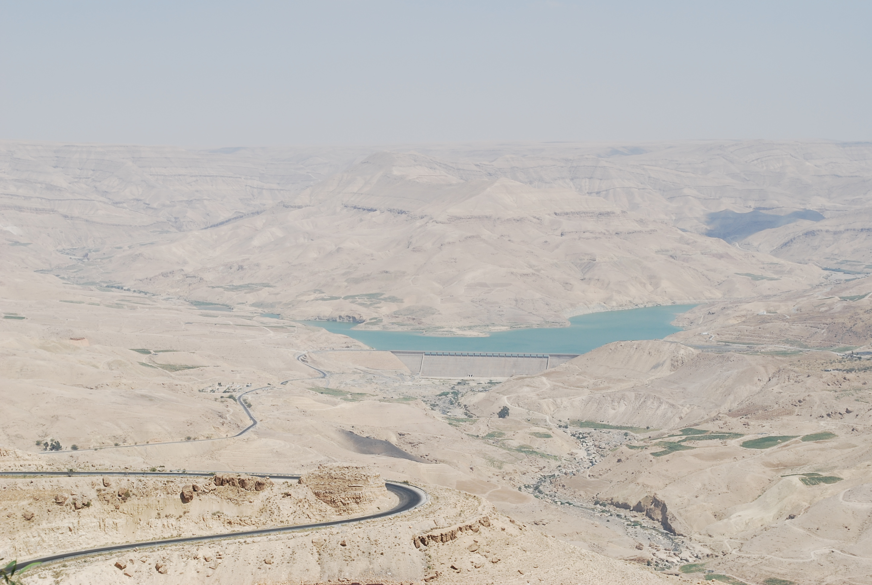 Wadi al Mujib, Jordan